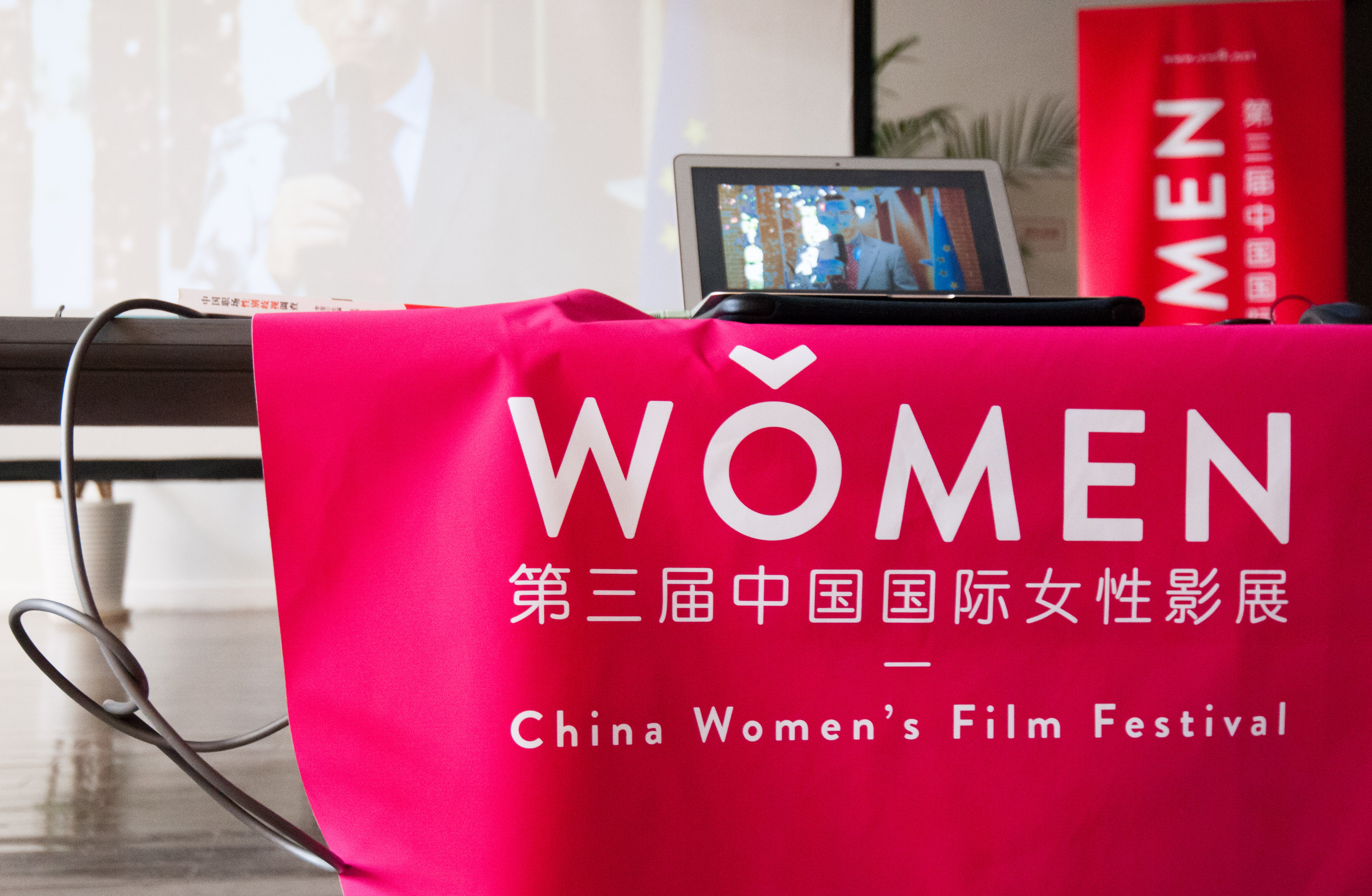 China Women's Film Festival, table runner with logo.